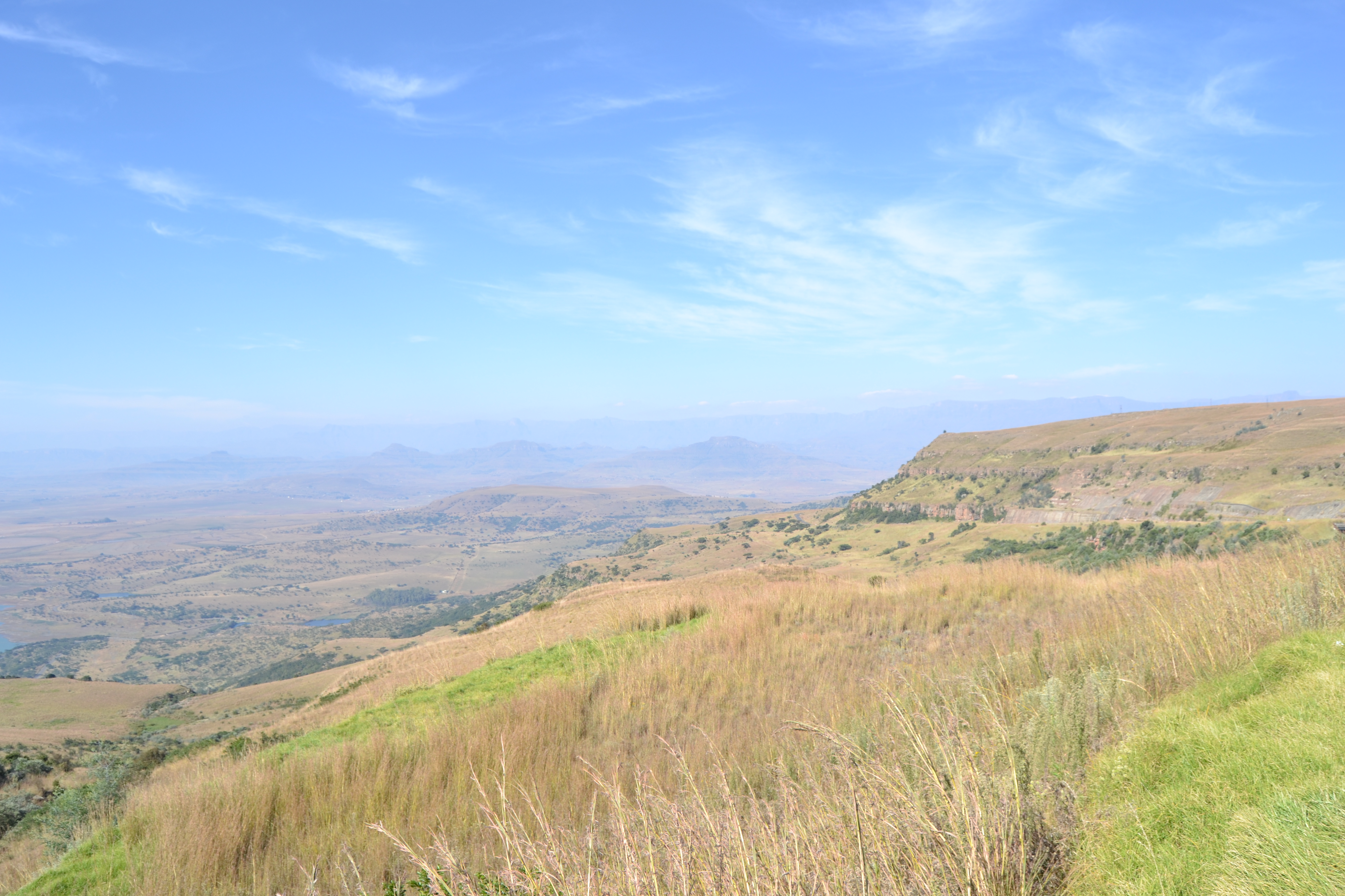 Oliviershoek Pass, between the Orange and the Kwazulu Natal Provinces, South Africa. View over the south side (Kwazulu-Natal).